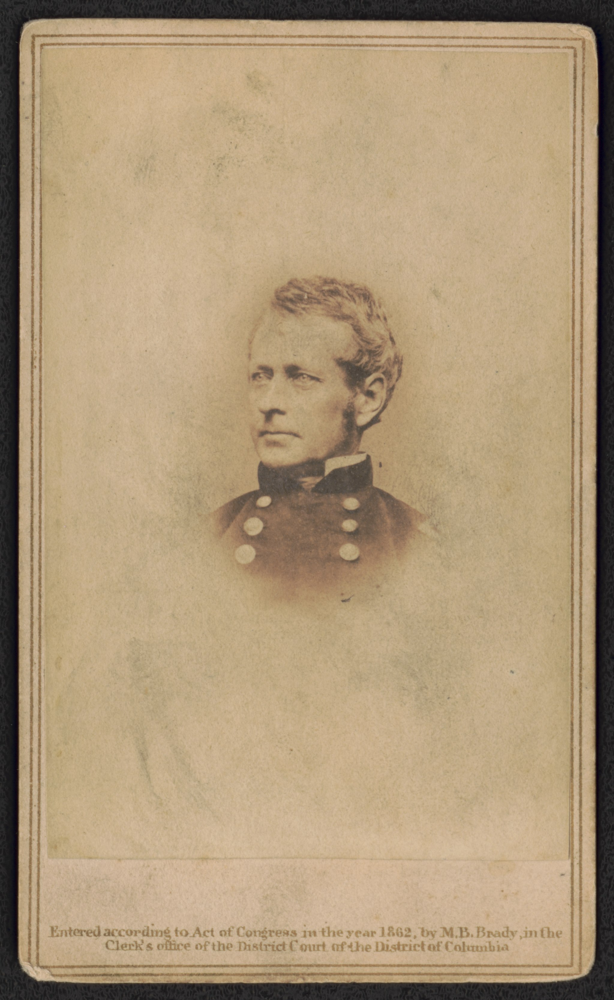 Title: Major General Joseph Hooker of General Staff U.S. Volunteers Infantry Regiment in uniform] / From photographic negative in Brady's National Portrait Gallery Abstract/medium: 1 photograph : albumen print on card mount ; mount 11 x 6 cm (carte de visite format)